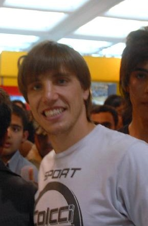 Fabio Januario